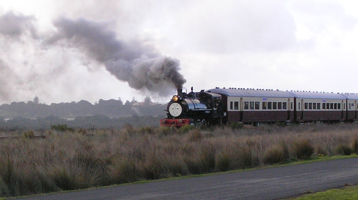 Train in "Thomas" attire on the Bellarine Peninsula Railway, heading west from Queenscliff.